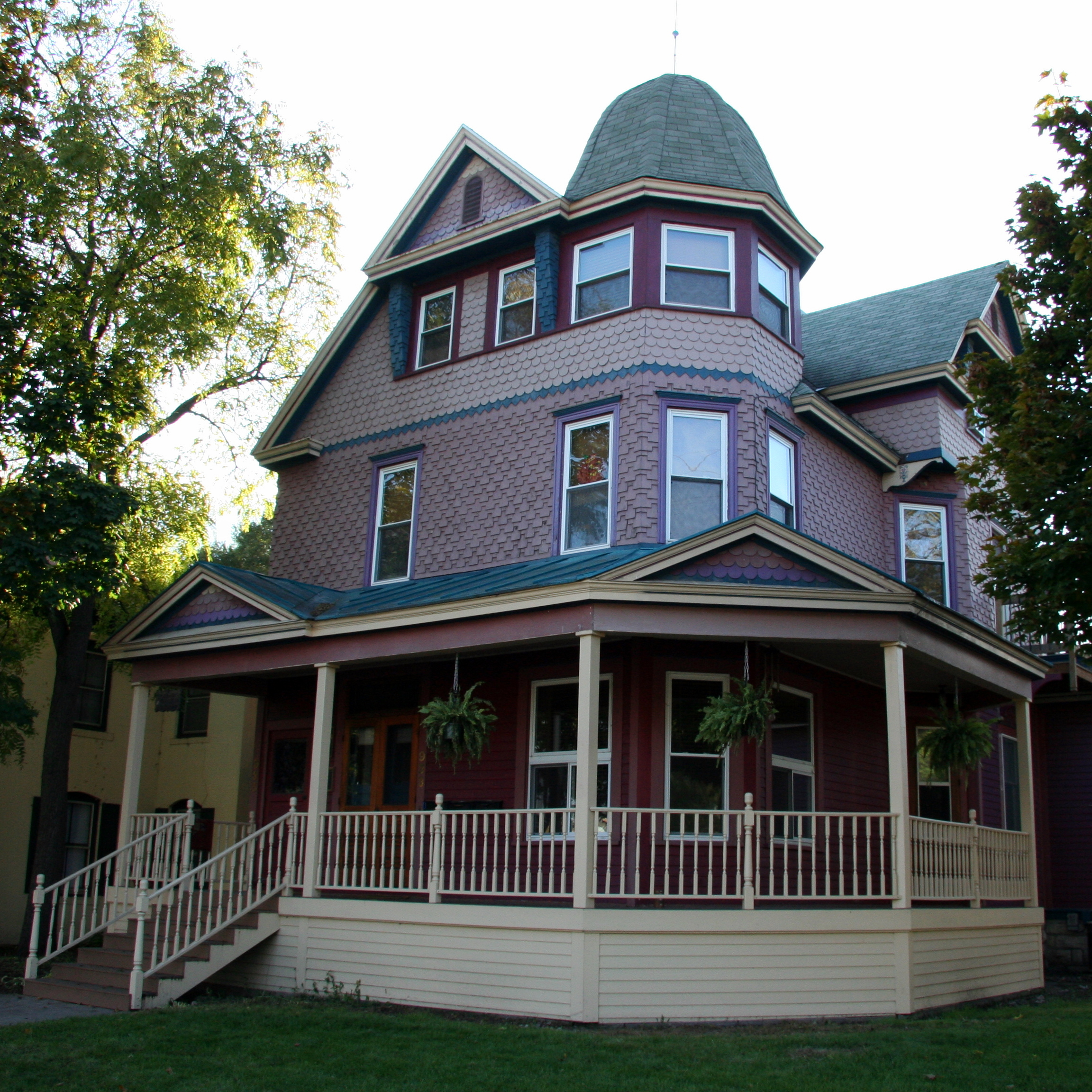 Historic John L. Callahan House, 933 Rose Street, La Crosse, Wisconsin